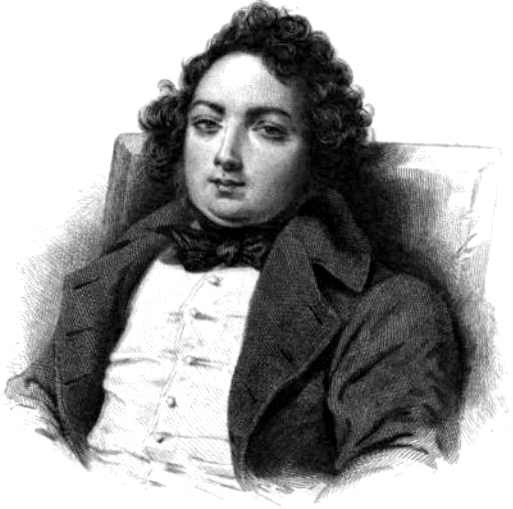 Jules Janin (1804-1874)